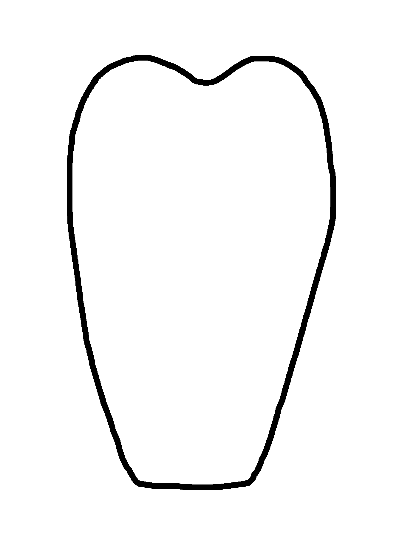 Metastoma of the eurypterid species Bassipterus virginicus, based on Kjellesvig-Waering & Leutze, 1966.